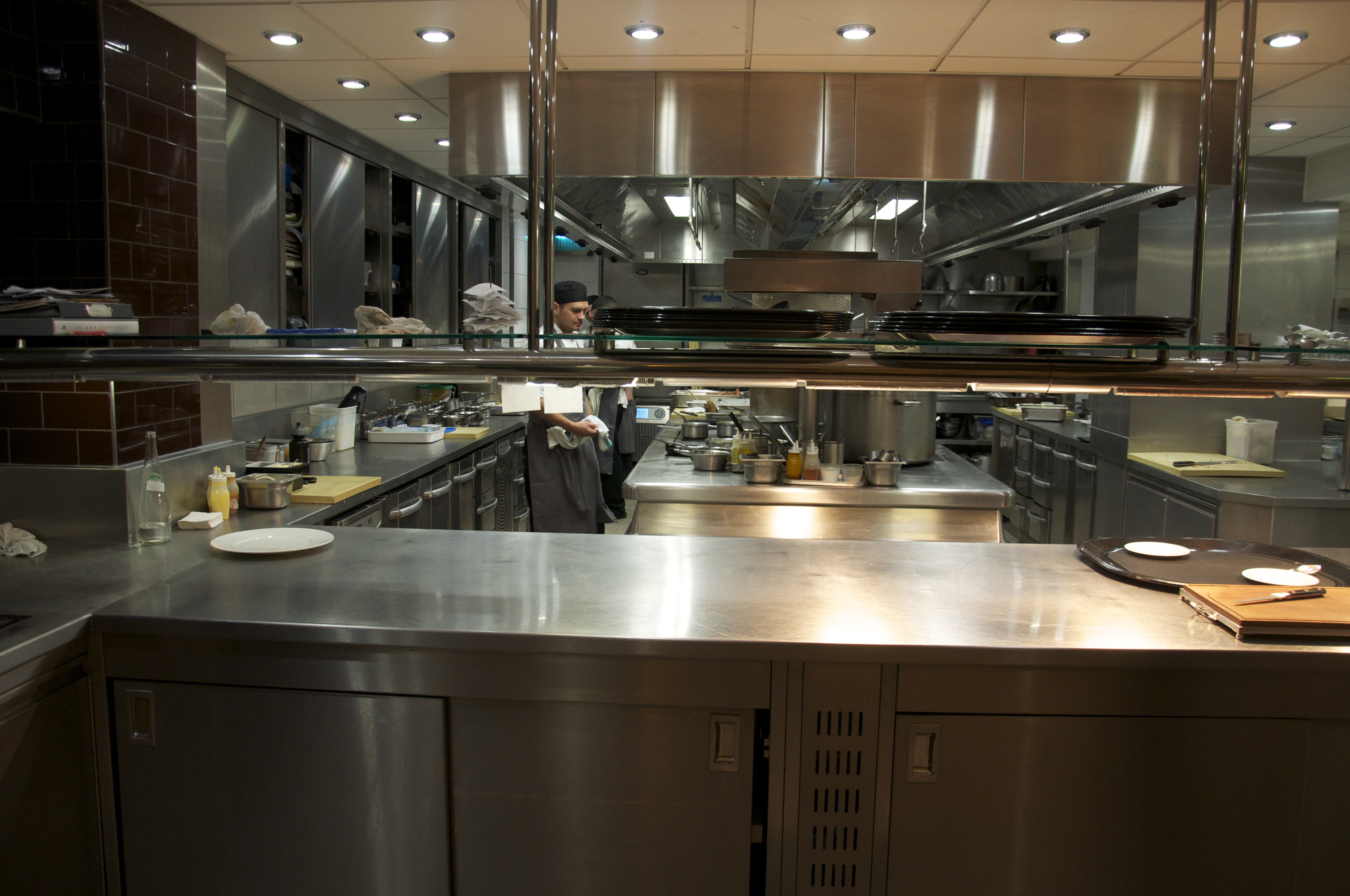 The kitchen of Gordon Ramsay's Petrus in Knightsbridge. Photographed in August 2011.